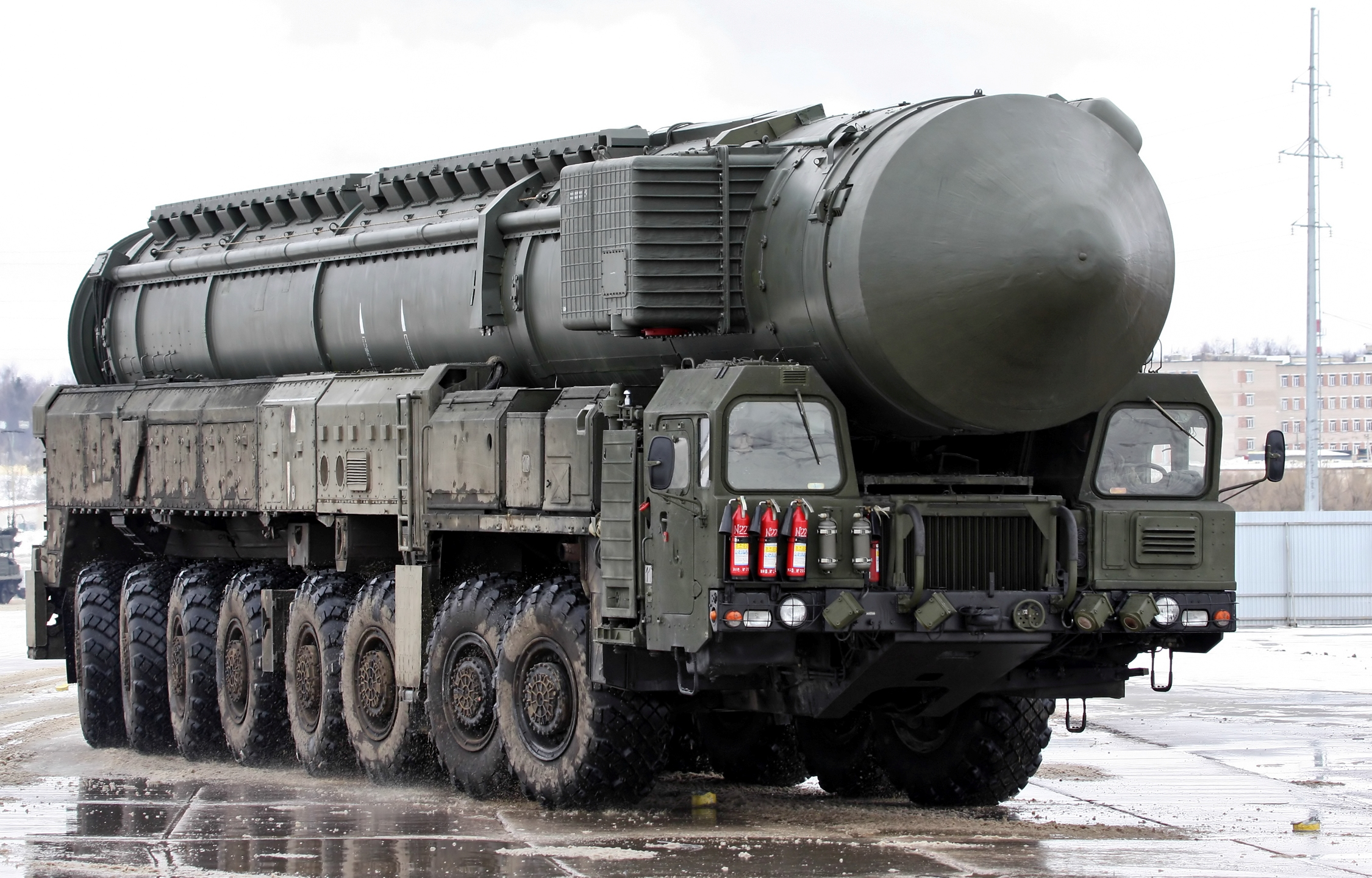 RT-2PM2 Topol-M TEL with presumably Yars system transport-launch container during the first rehearsal for the Victory Day Parade at the training ground in Alabino.